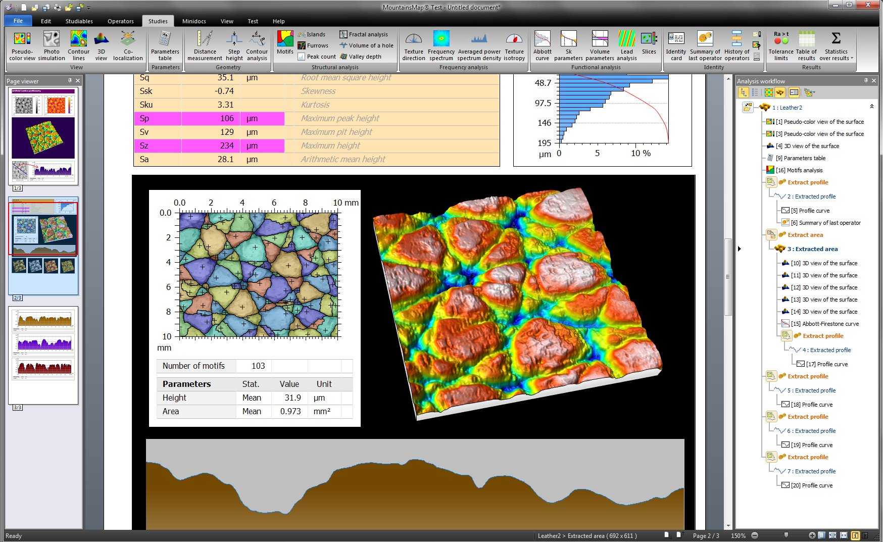 Artificial leather scanned using a 3D profilometer and displayed using MountainsMap 7.0 surface analysis software to show the MountainsMap 7.0 G.U.I.